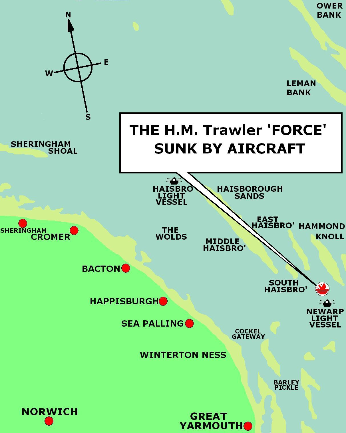 map of the norfolk coast indicating the sinking of HM Force